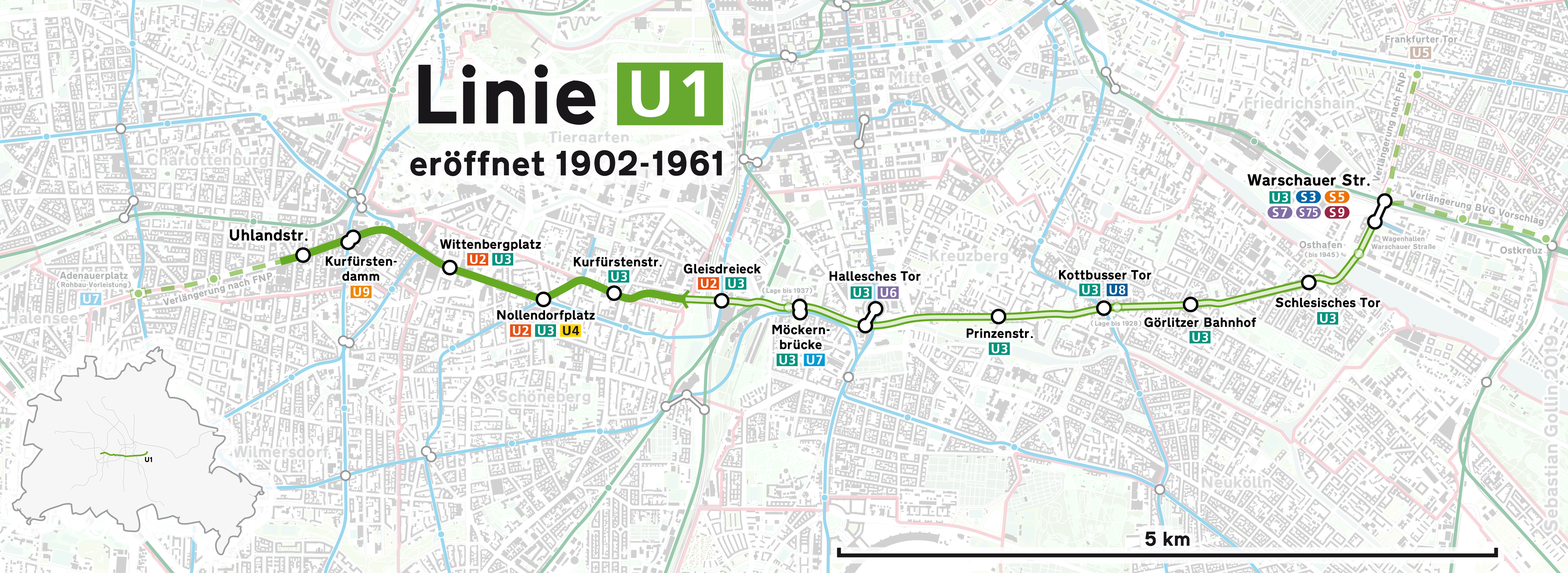 Map of Berlin's underground line U1